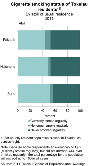 Smoking status of Tokelauans by atoll, according to the 2011 census. 2.4% of the Tokelau adult population elected not to answer the cigarette smoking question.